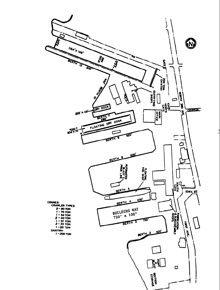 Bay Shipbuilding, Sturgeon Bay, Wisconsin, c.1985